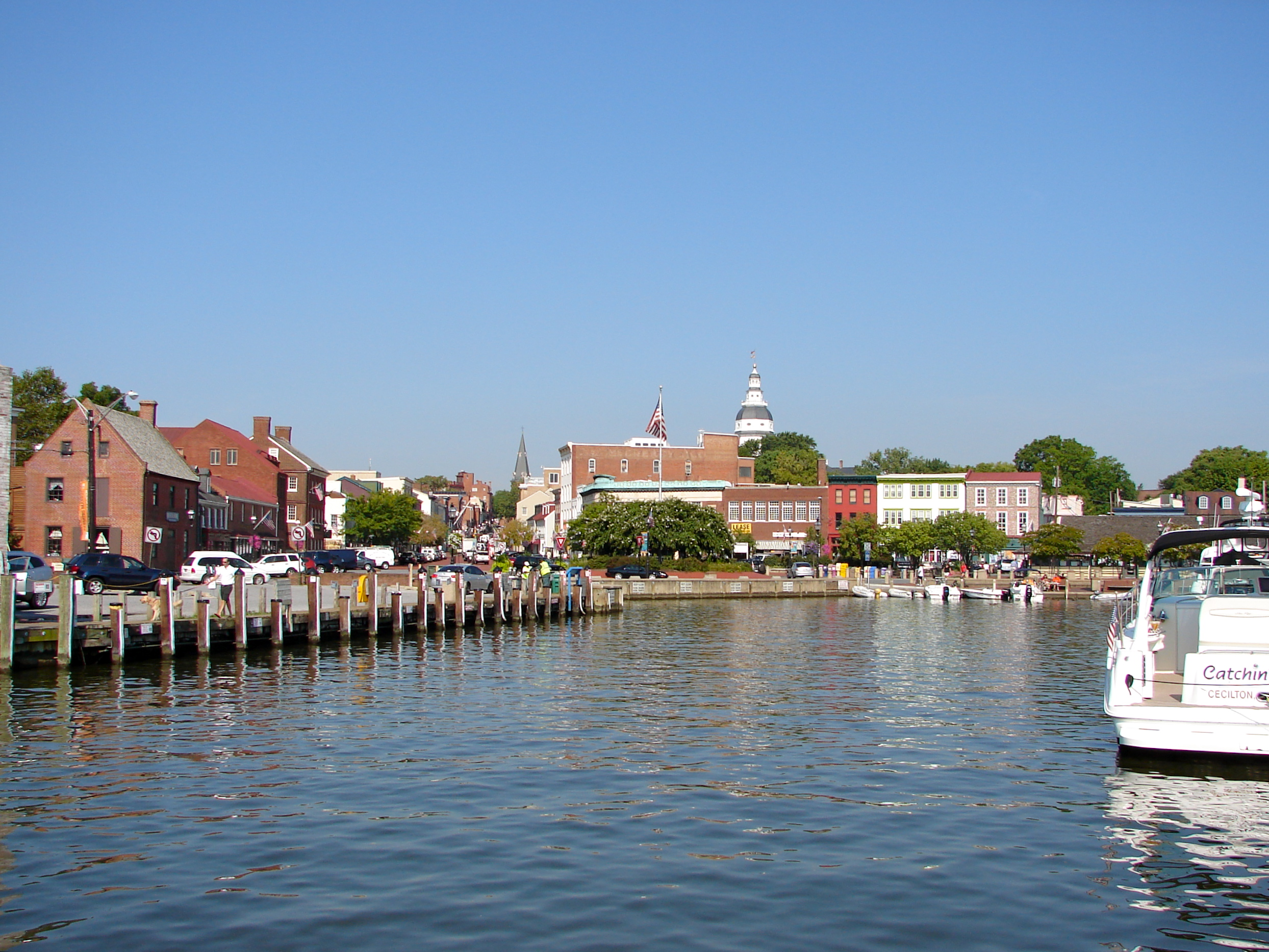 The dock or harbor in Annapolis, Maryland. Dock Street is just out of the frame of the photo to the right. Folks leaving their boats tied up here would step right out into the street. The Maryland State Capitol is the tall tower in the distance. At the end of the street/harbor is a set of statues showing Alex Haley (author) reading to children. His ancestor Kunte Kinte landed in the harbor as a slave coming from Africa, according to Haley (and historical markers near the statues).